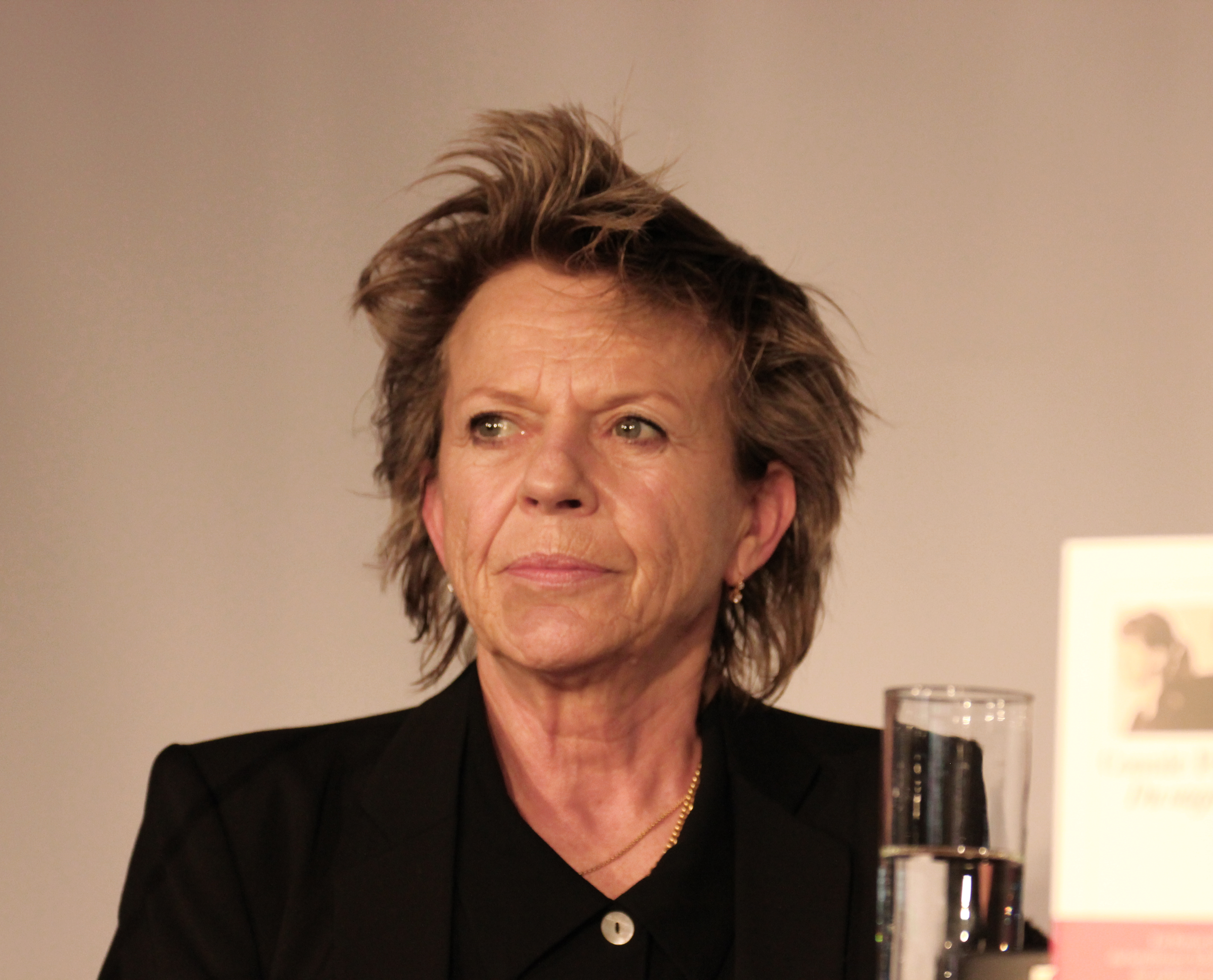 Connie Palmen Frankfurt Book Fair 2016